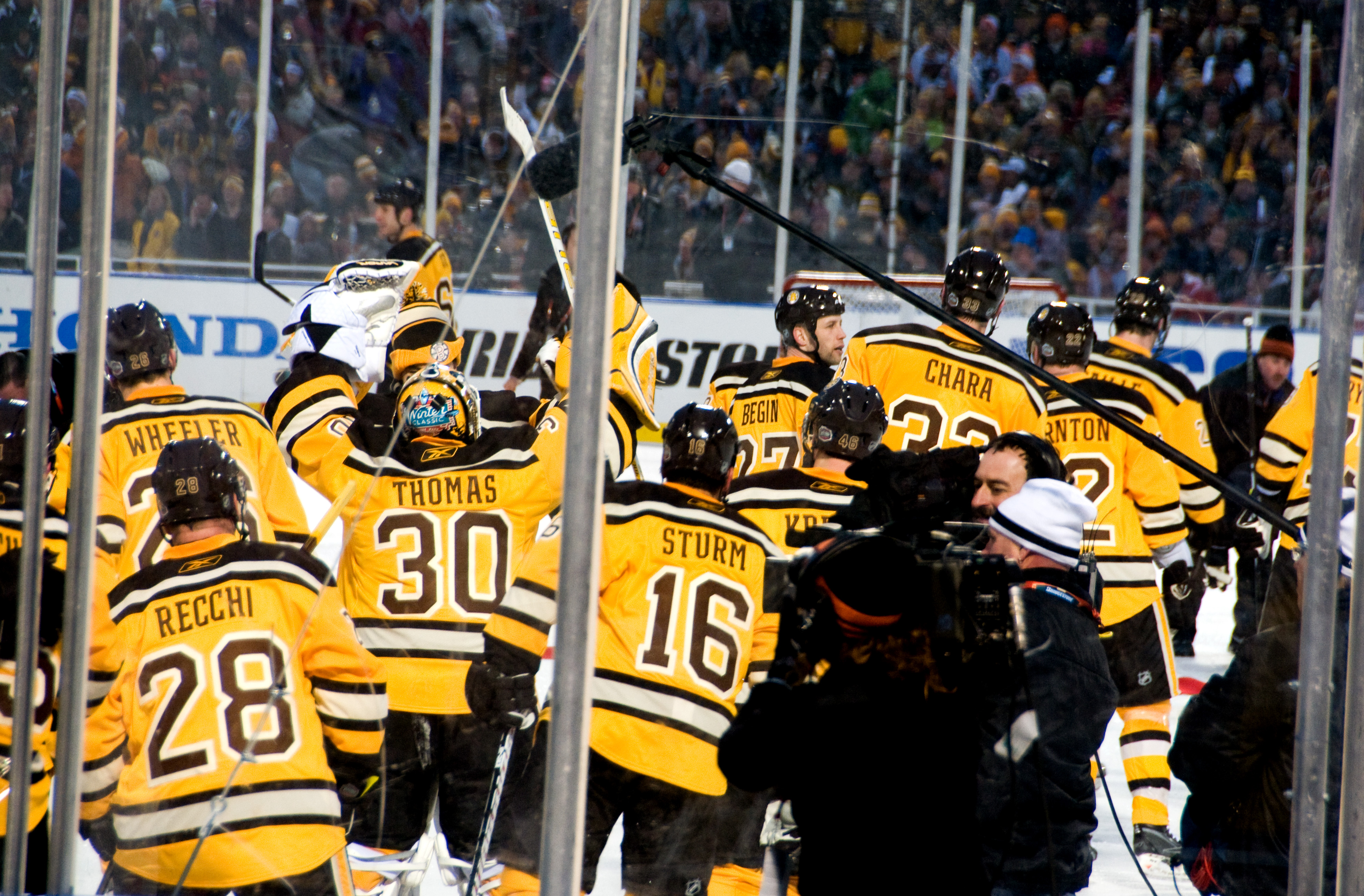 Skating off Victorious